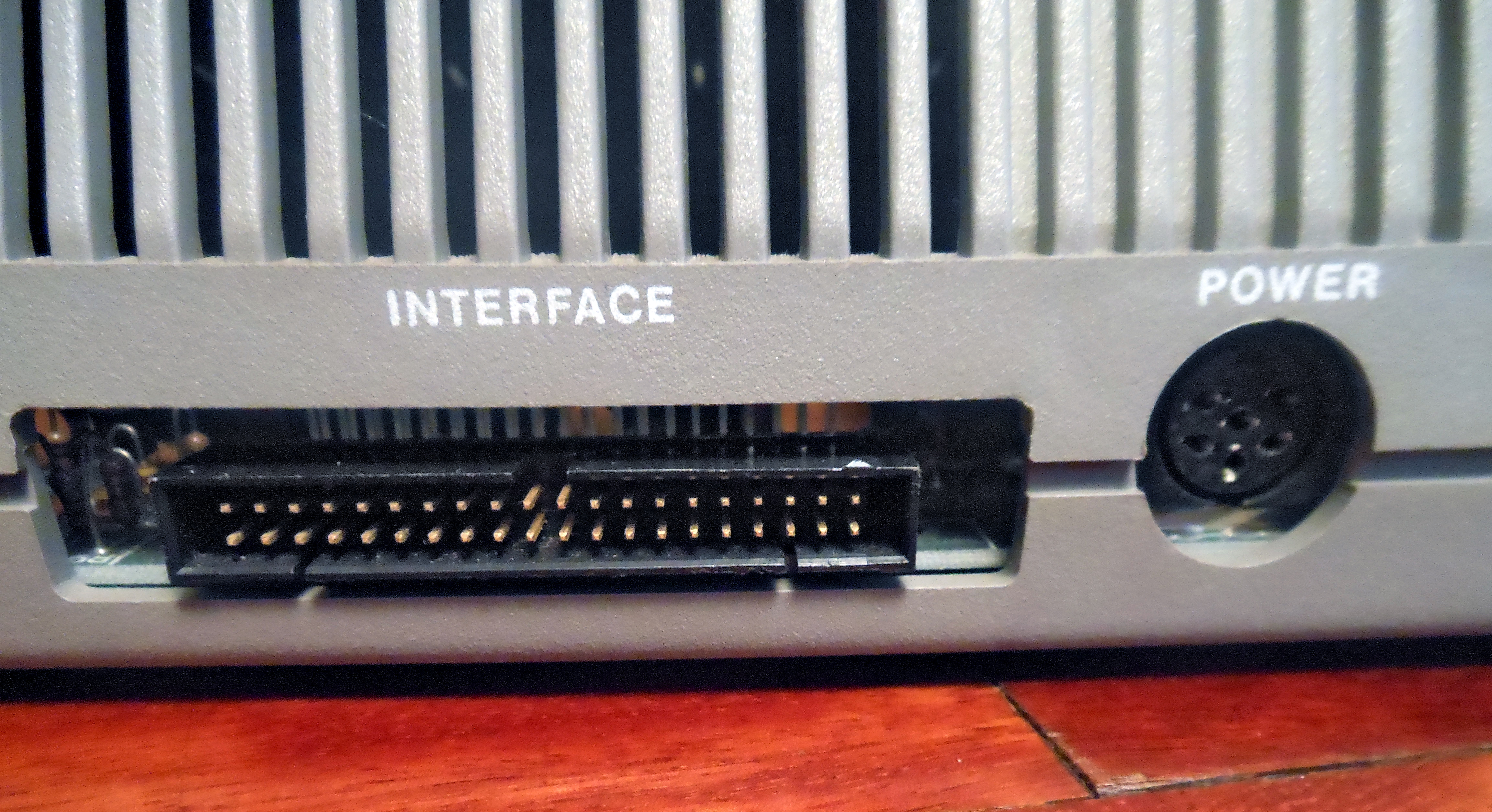 Camputers Lynx - Rear - Part 2